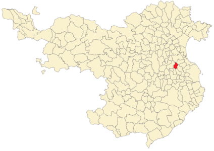 Garrigoles